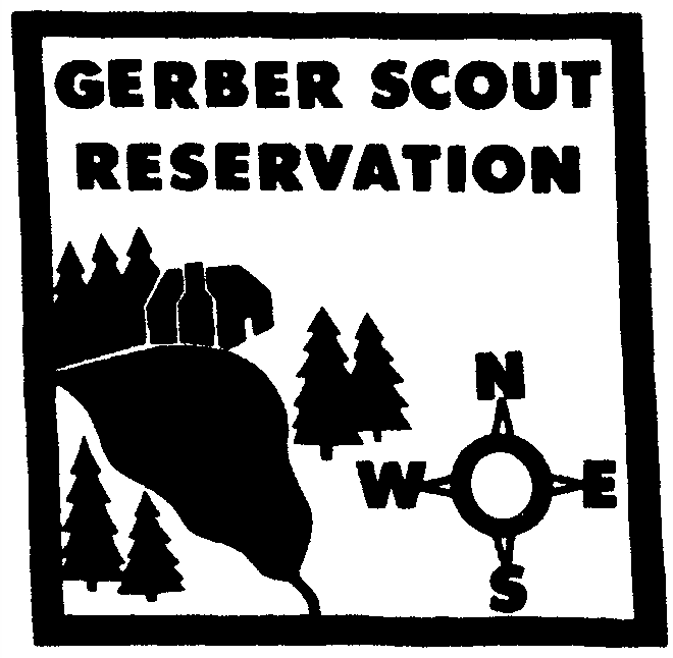 This logo is a reproduction of the original design used on patches and neckerchiefs by Gerber Scout Reservation in the 1950s